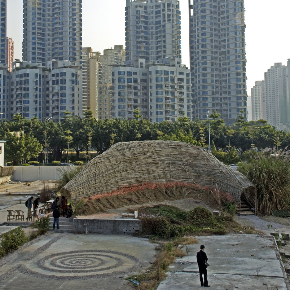 Bug Dome by WEAK! in the SZHK Biennale 2009. A group of architects calling themselves WEAK! are Hsieh Ying-chun, Marco Casagrande and Roan Ching-yueh.